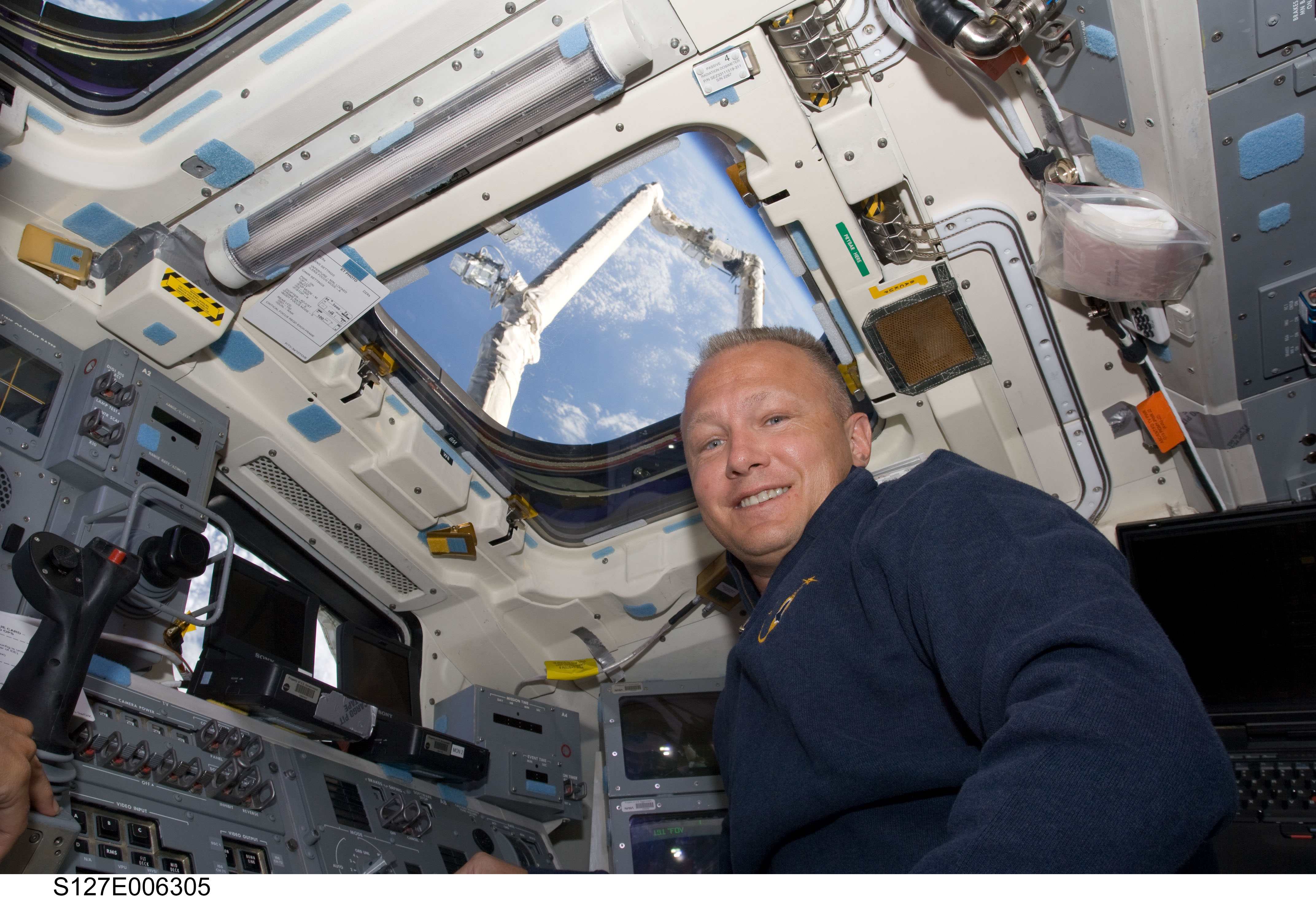 View of Astronaut Doug Hurley, STS-127 Pilot, during Port Wing Survey on the Space Shuttle Endeavour, Orbiter Vehicle (OV) 105 during the STS-127 mission.